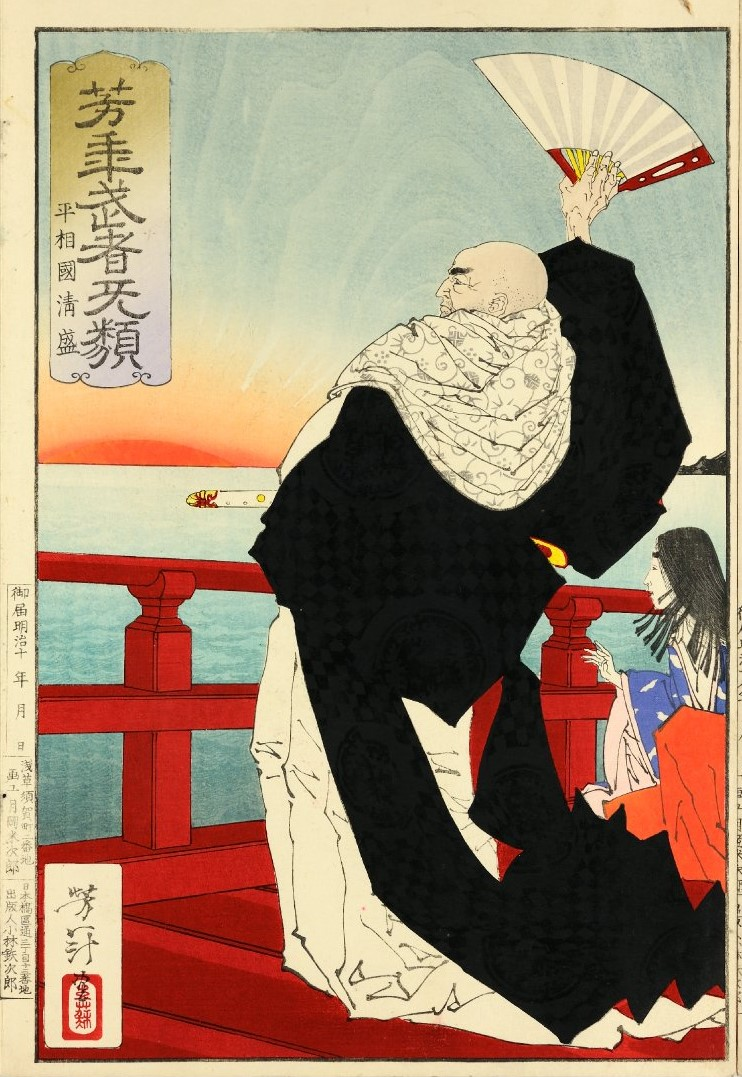 "Hei Shōkoku Kiyomori" from Tsukioka Yoshitoshi's "Yoshitoshi Mushaburui"